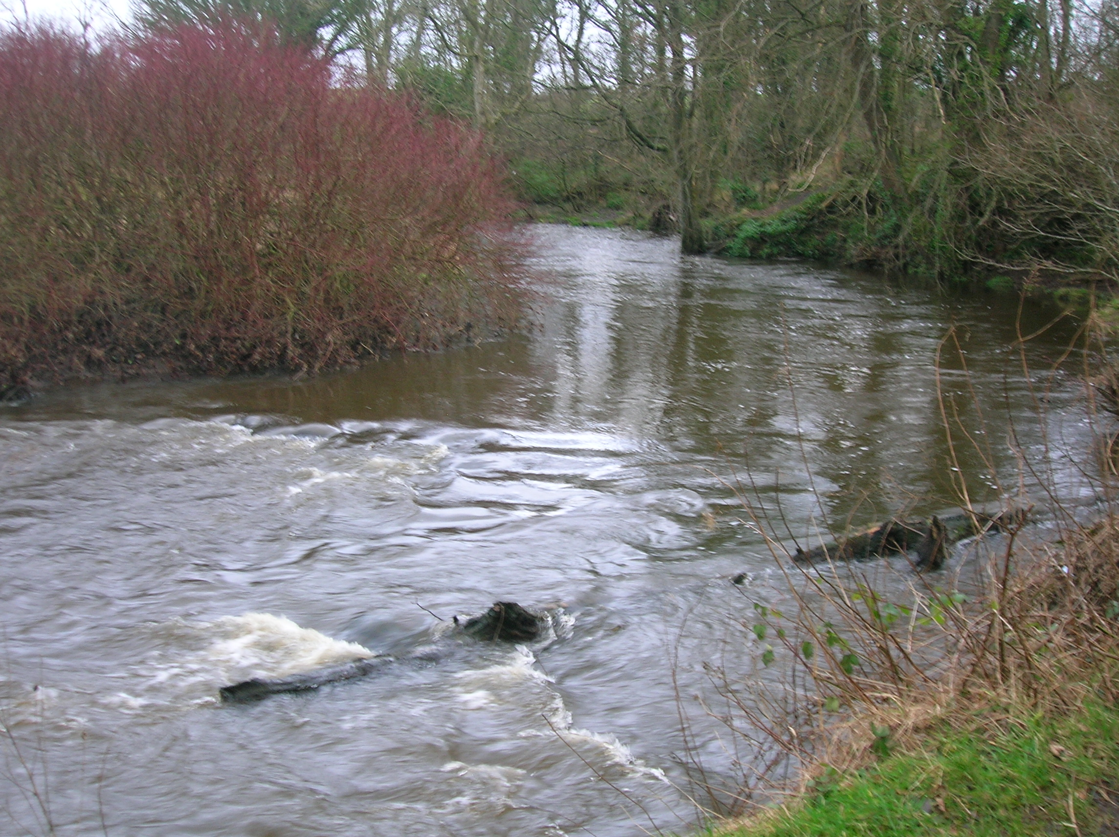 The weir on the Lugton Water near Fergushill, North Ayrshire, Scotland.